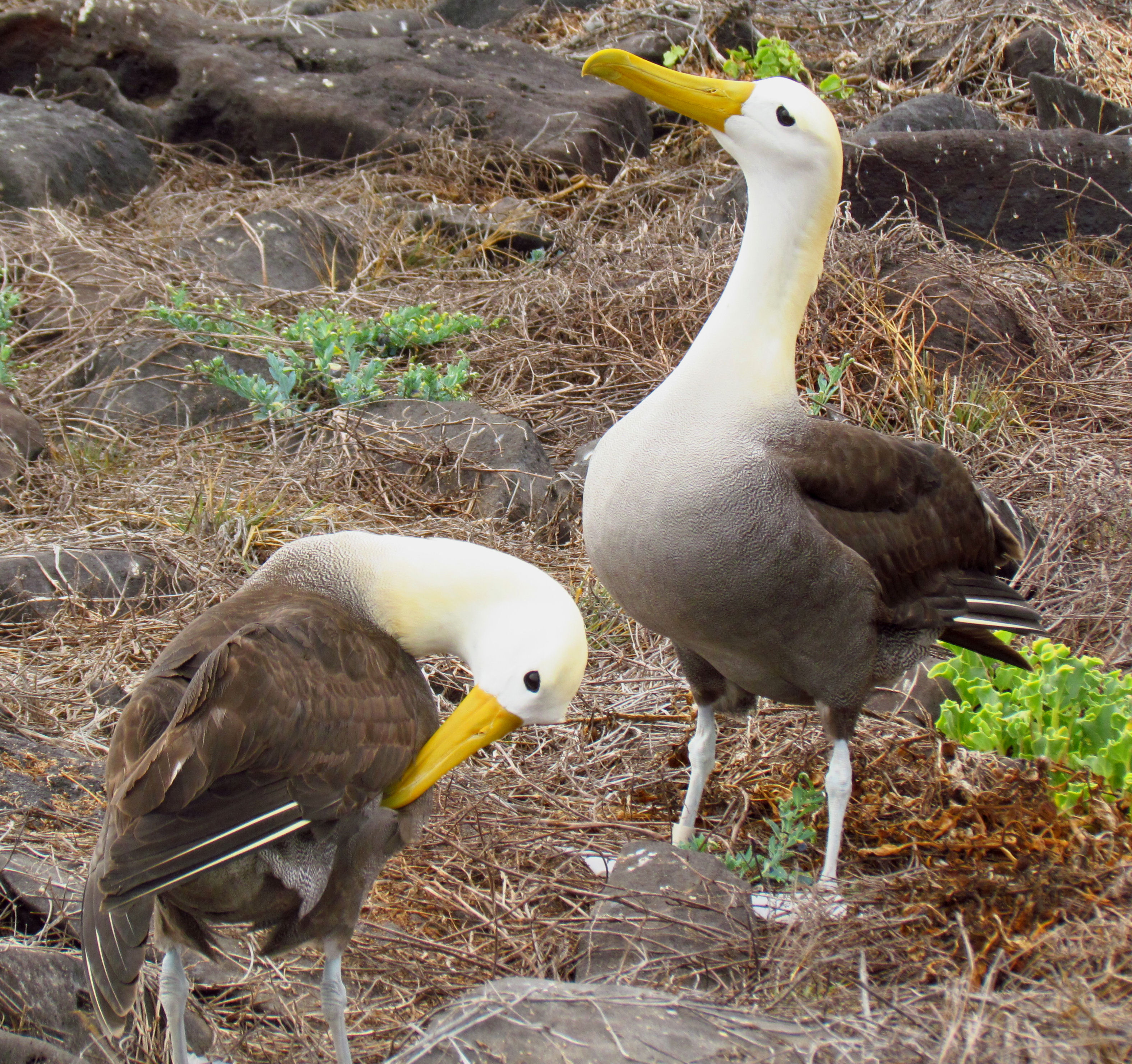 Waved Albatross (Phoebastria irrorata), Espanola Island, Galapagos Islands, Ecuador